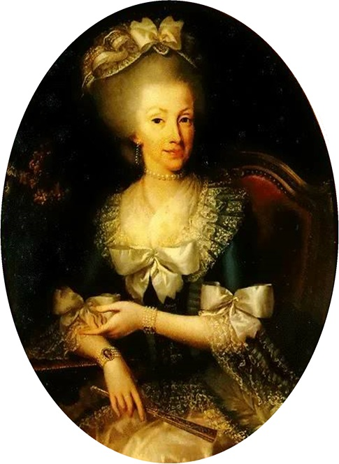 Portrait of Princess Maria Felicita of Savoy (1730-1801) Caption from Catalogo Generale dei Beni Culturali Caption from Catalogo Generale dei Beni Culturali: "Data la mancanza dei numeri d'inventario, non è possibile ricostruire la provenienza e la catena inventariale per questo dipinto. Raffigura la principessa Maria Felicita di Savoia (1730-1801), figlia di Carlo Emanuele III e di Polissena D'Assia, rimasta nubile, secondo un'iconografia largamente diffusa. La scritta moderna sul retro, che riporta evidentemente quella antica, ci fornisce il nome di Giovanni Panealbo, con la data 1786 e Moncalieri come luogo di esecuzione. Tra i documenti riferiti al pittore torinese registrati nelle Schede Vesme (1968, v. III, pp. 772-775), compare quello del 1786 per un ritratto di Madama Felicita portato a Moncalieri; andrà perciò verificata l'eventuale provenienza del quadro da quel Castello. La scritta indica poi che la principessa è ritratta a 36 anni, mentre nel 1786 ne avrebbe avuti già 56. Al Castello di Racconigi è conservato un ovale, sempre attribuito al Panealbo, uguale per iconografia ma con Maria Felicita a mezzo busto.